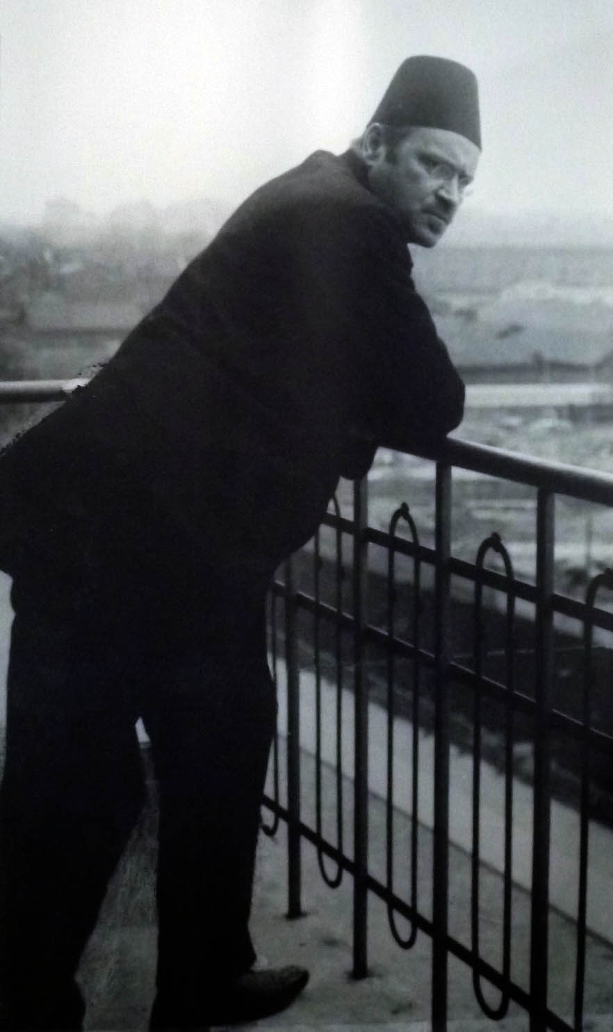 Finnish architect Usko Nyström (1861-1925), Helsinki, 1910.